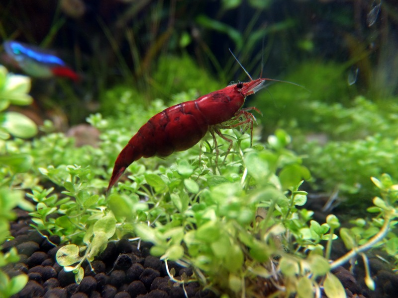 a photo of a red cherry shrimp